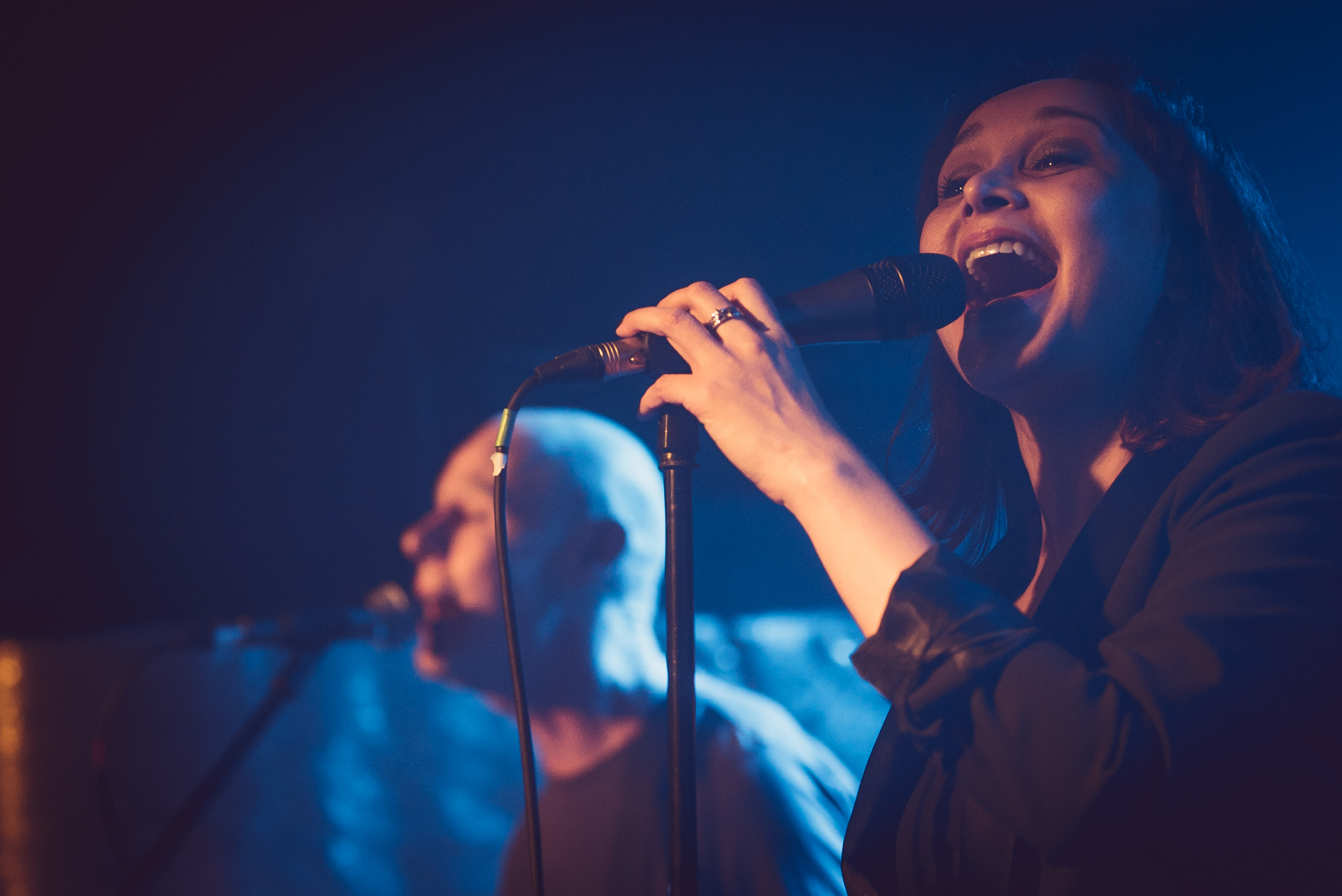 Echobelly